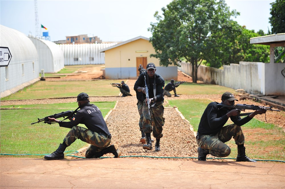 3rd Bataillon d'Intervention Rapide or Rapid Intervention Battalion (BIR) soldiers practice efficient urban movement techniques to assault a target house during Exercise Silent Warrior 2013 in Bamenda, Cameroon on Jan. 24, 2013. The U.S. Special Operations Forces team set up a scenario to allow 3rd BIR soldiers to navigate through an urban environment in order to improve on their ability to conduct urban operations. Silent Warrior is an annual, African-led, military exercise exchange focused on developing security and counter-terrorism capabilities (Photo by Air Force Master Sgt. Larry W. Carpenter Jr.)